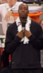 Baltimore Ravens running back Ray Rice is tackled by 2 San Francisco 49ers defensive players during Super Bowl XLVII.